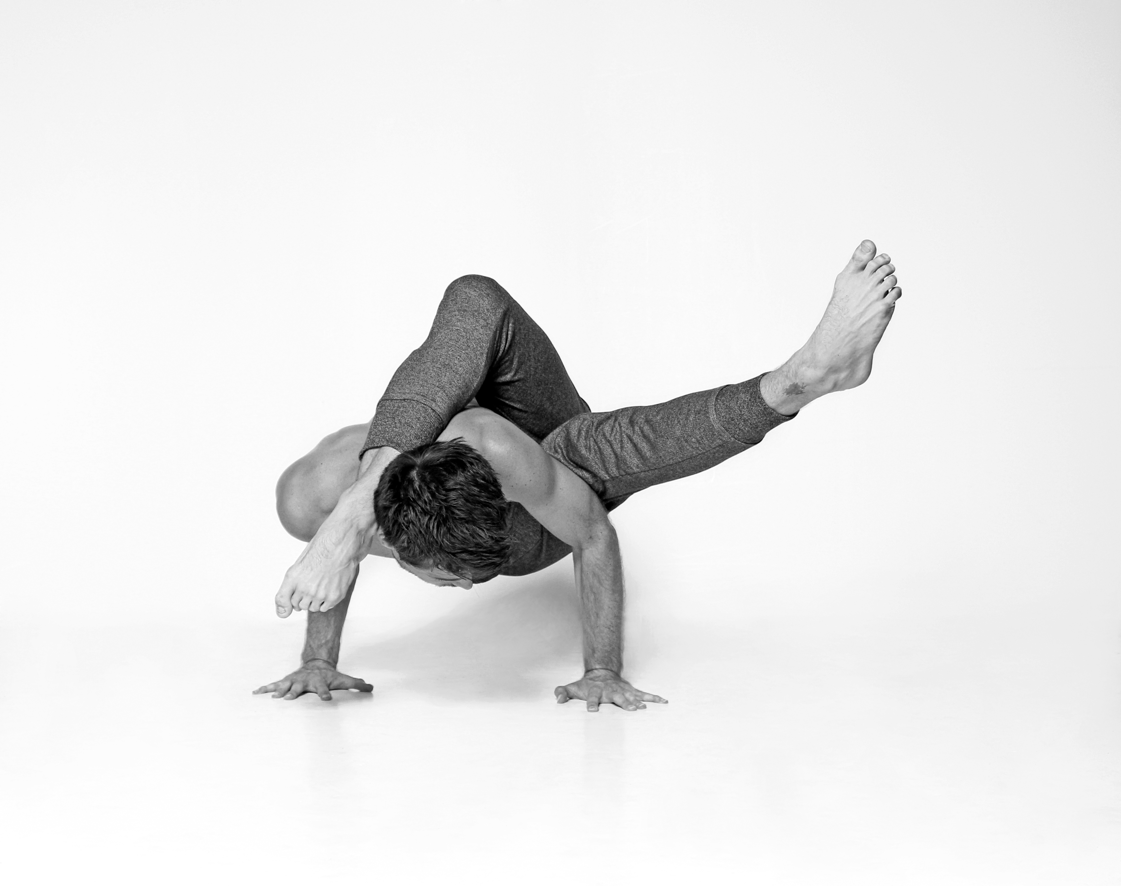 Drew Osborne Yoga